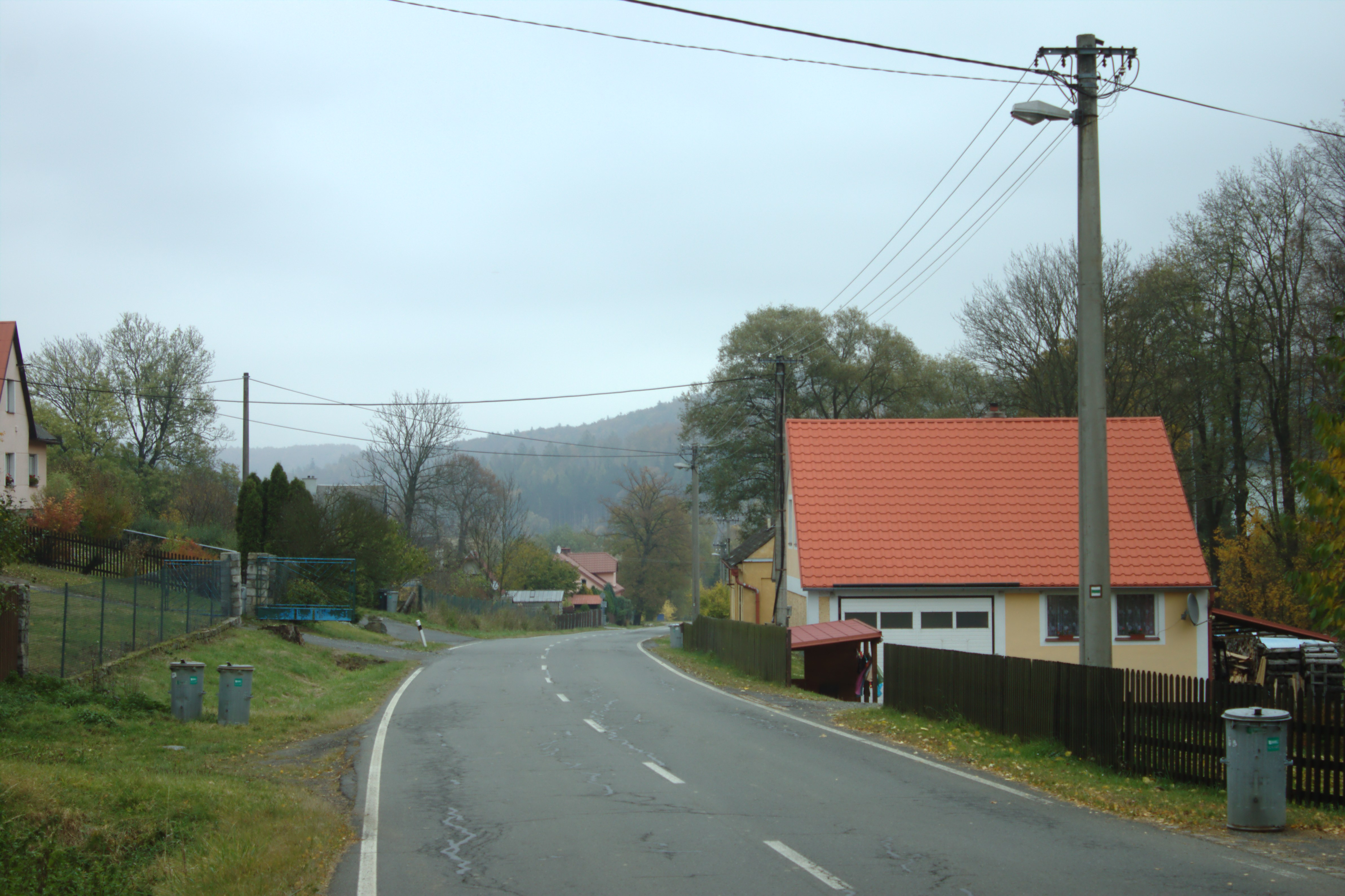 Main road in Oborná, Moravian-Silesian Region, CZ